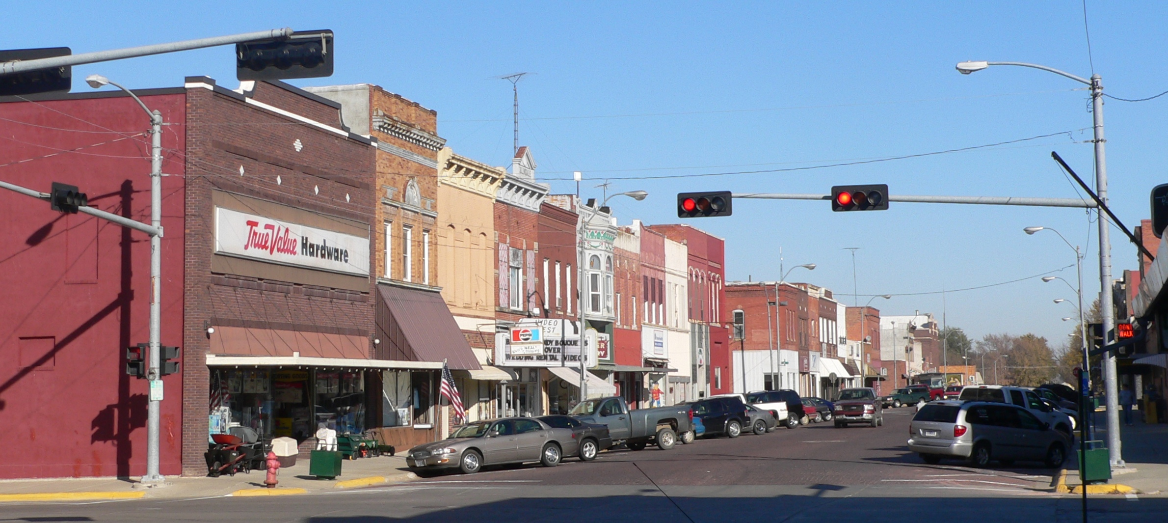 Downtown West Point, Nebraska: Main Street, looking north from Grove Street.